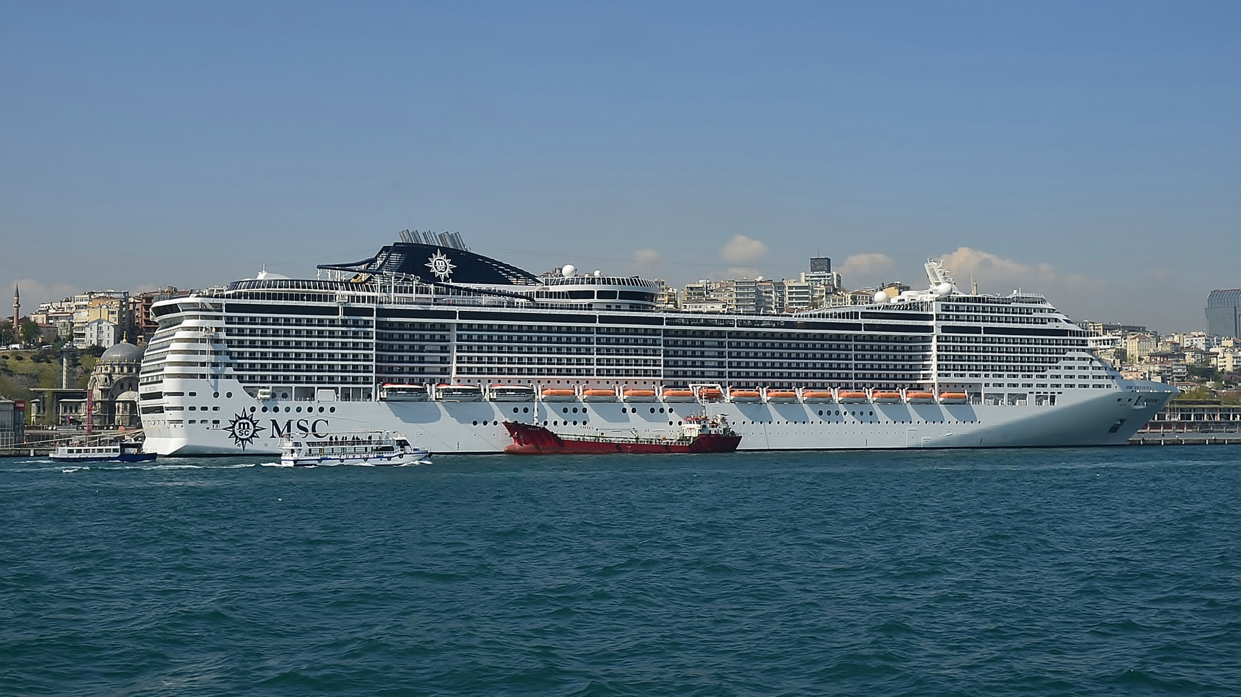 Cruise ship MSC Preziosa at Port of Istanbul on April 9, 2014